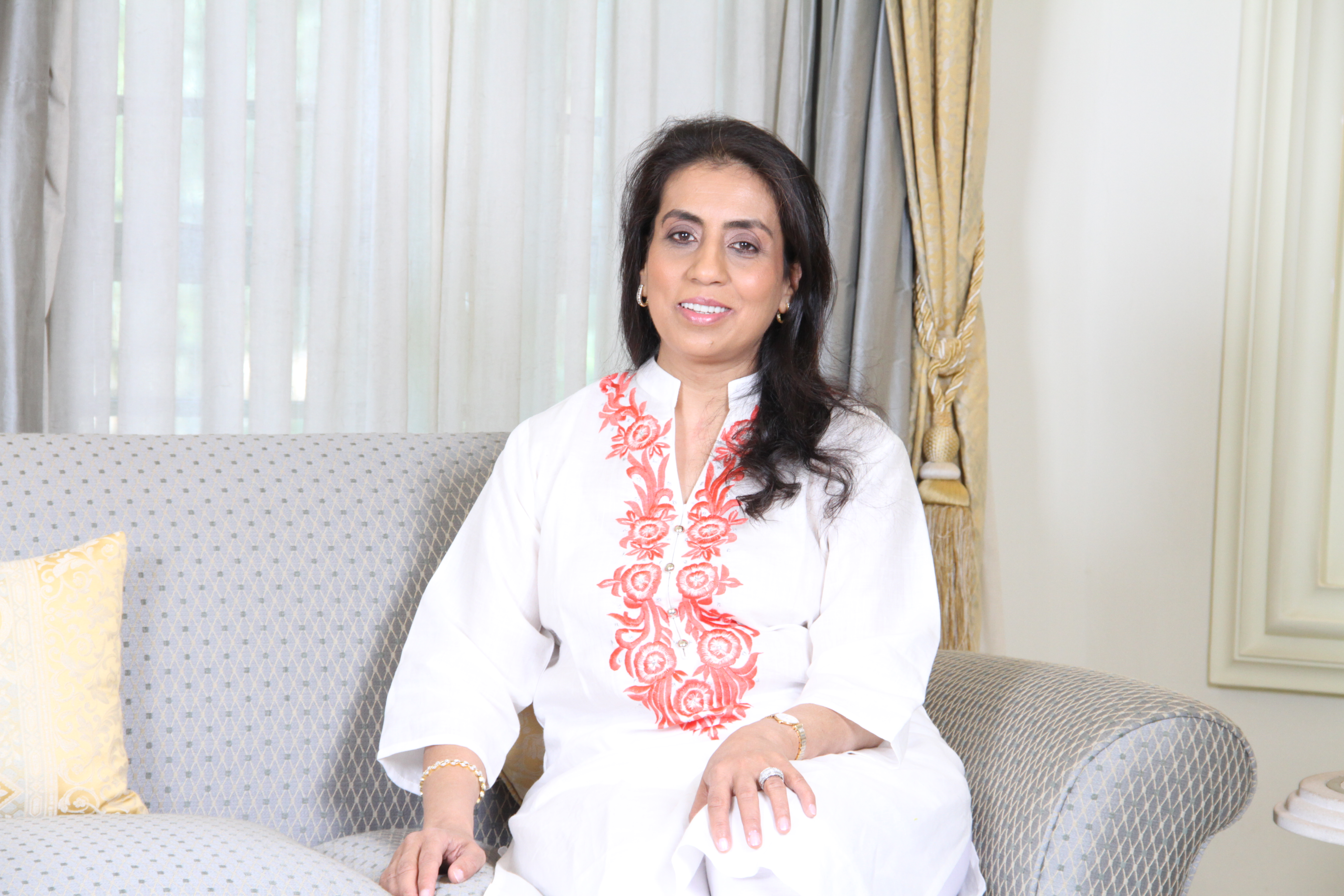 Wife to Vimal Shah